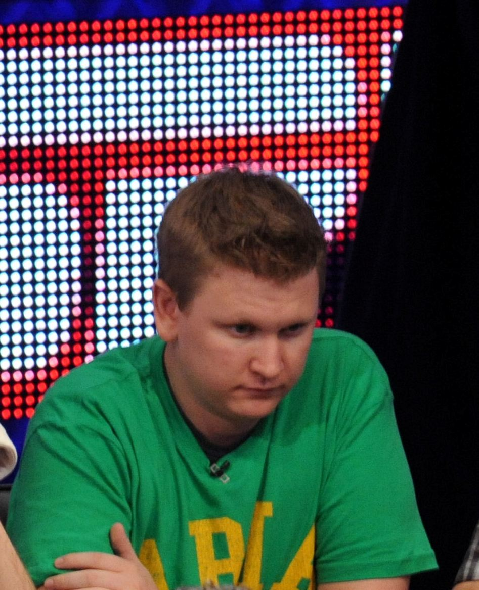 Ben Lamb